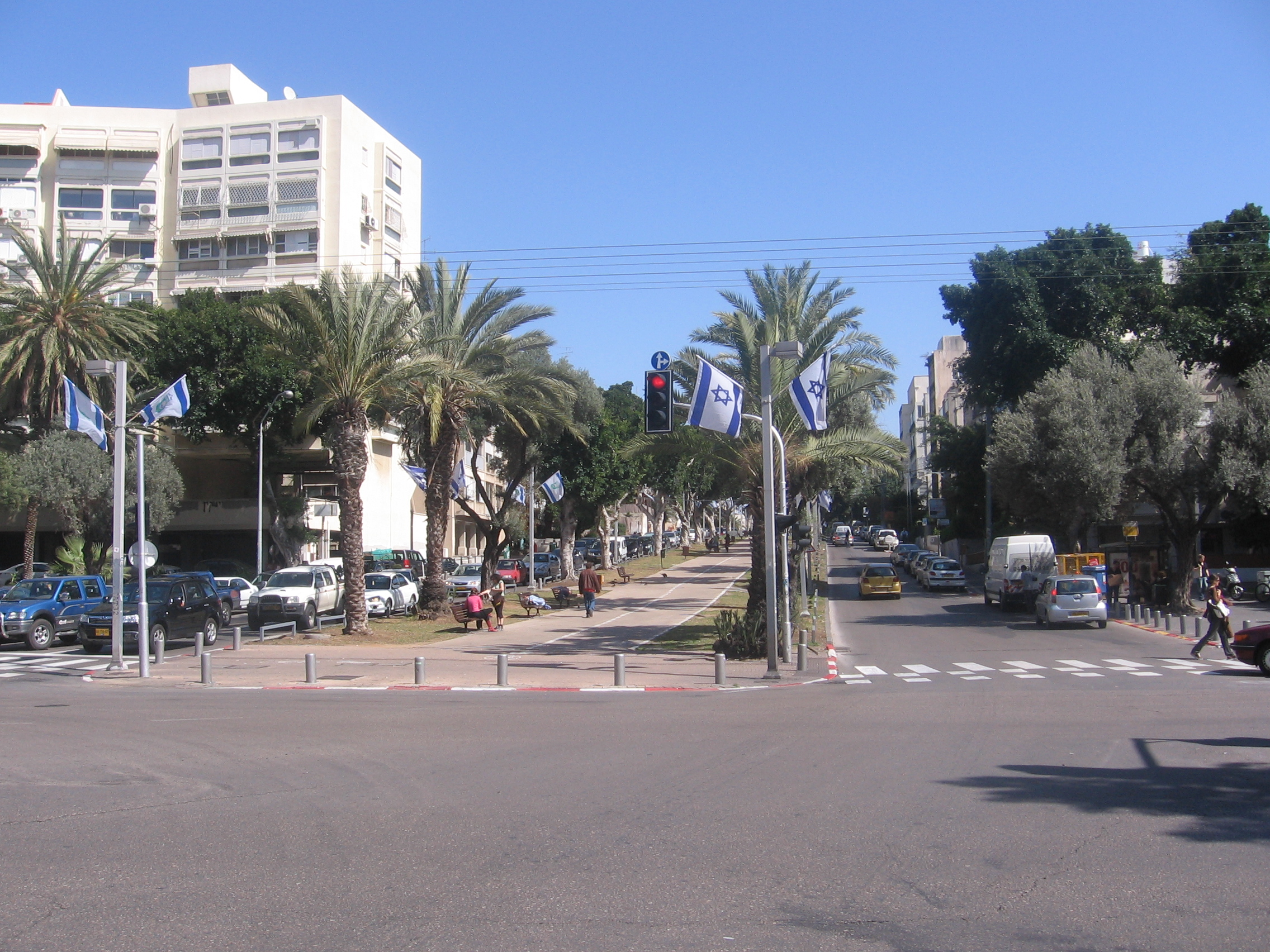 Ben Zion blvd. in Tel Aviv.